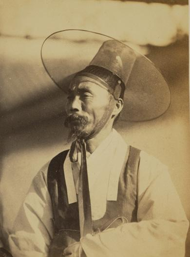 One of the oldest photographs of Korean people